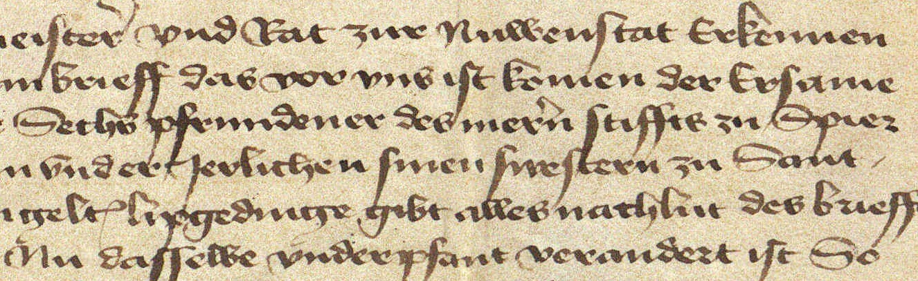 Urkundenausschnitt mit dem Schriftzug "Sechspfründener des Merestifts (=Domstift) zu Speyer"